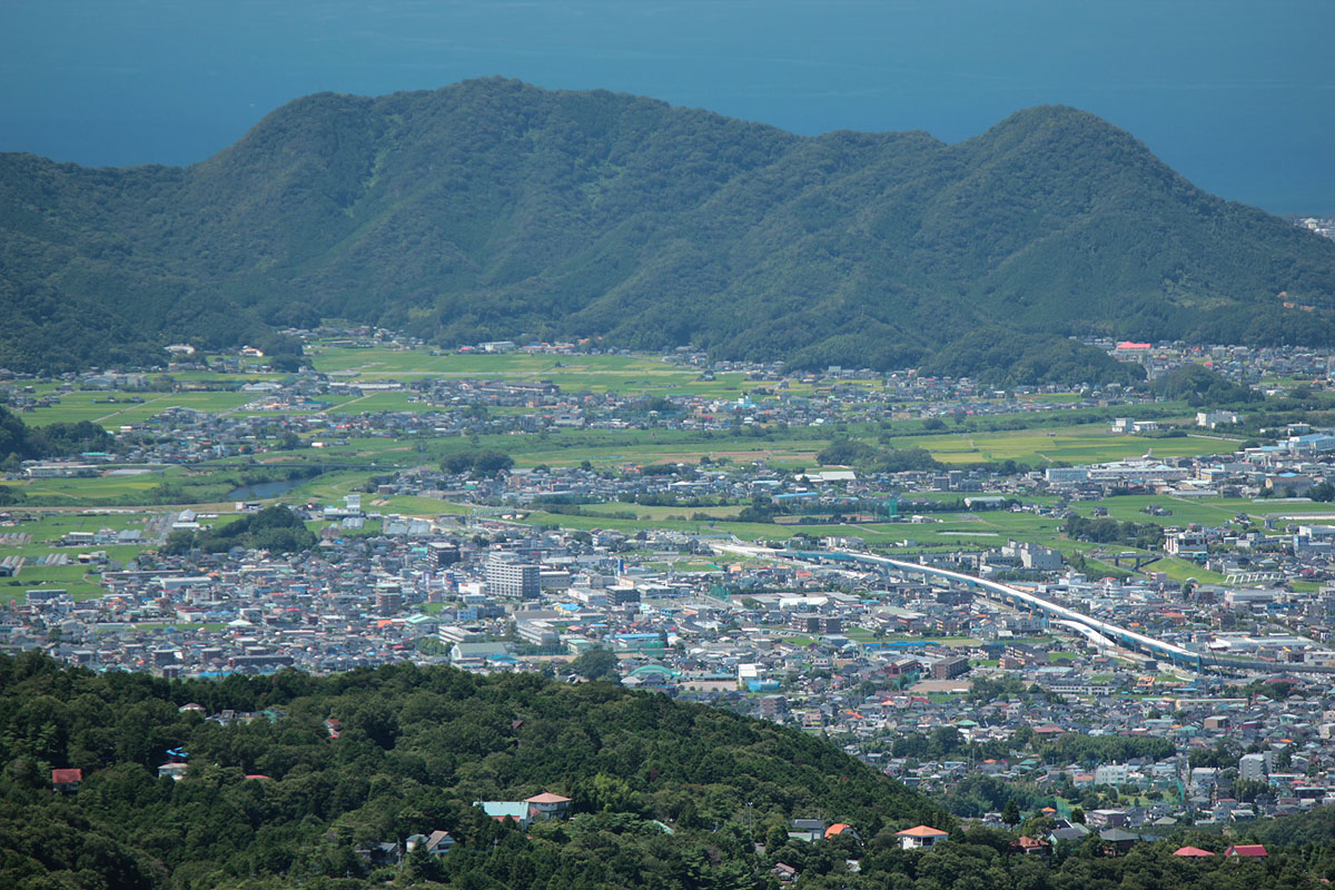 Mount Tokura as seen from the east in the border between Numazu and Shimizu, Shizuoka prefecture. Taken from Izu Skyline (road nanme).